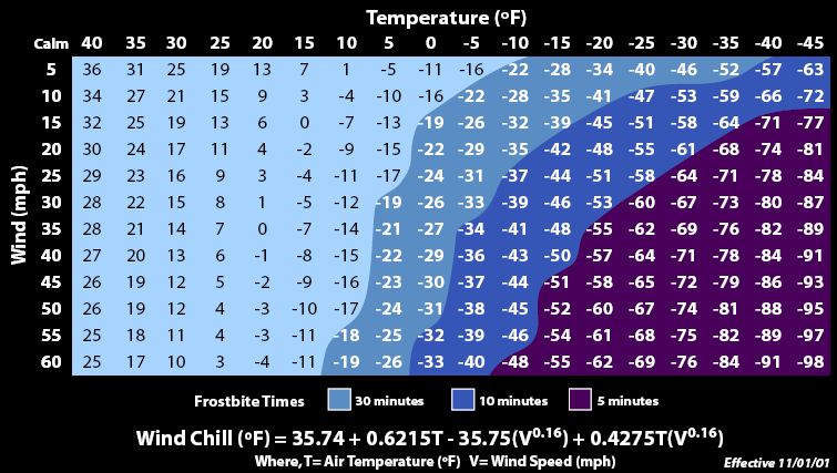 A chart depicting different wind chill temperatures for given dry bulb temperatures and wind speeds.